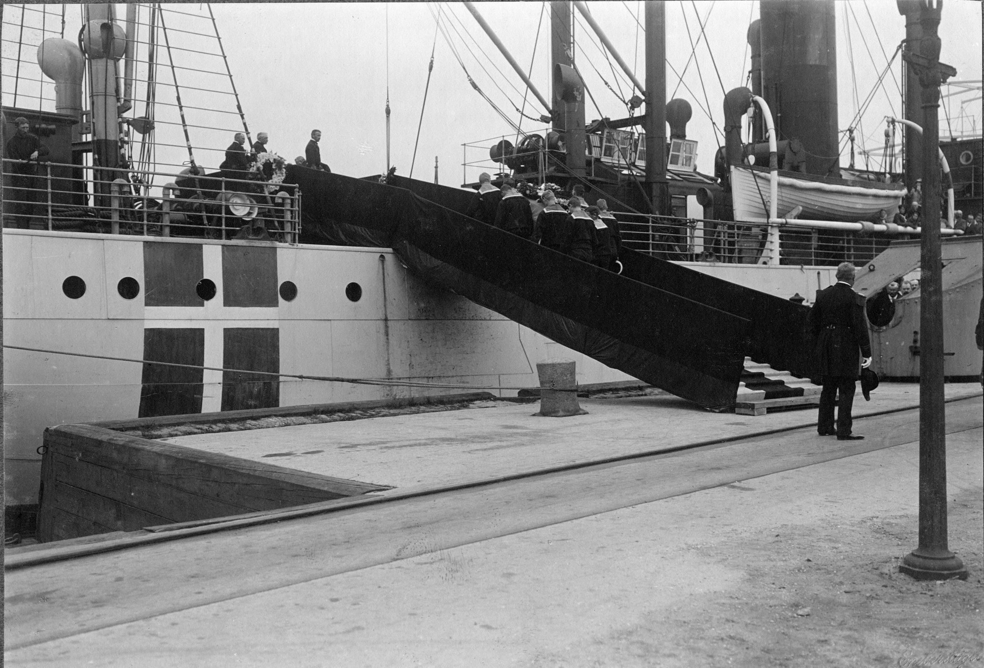 The lost sailors of HMS E13 being carried on board S/S Vidar, sailing them home to England.